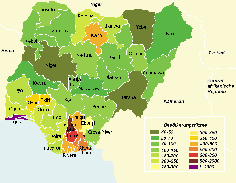 States of Nigeria, population density